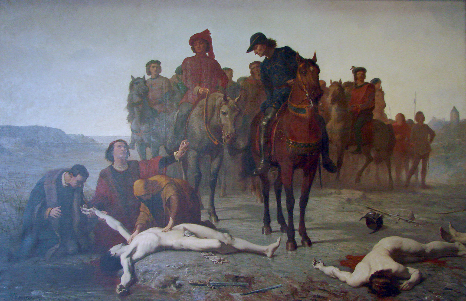 Charles the Bold found after the Battle of Nancy (table 1865) by Auguste Feyen-Perrin (1826-1888), Musée des Beaux-Arts in Nancy.